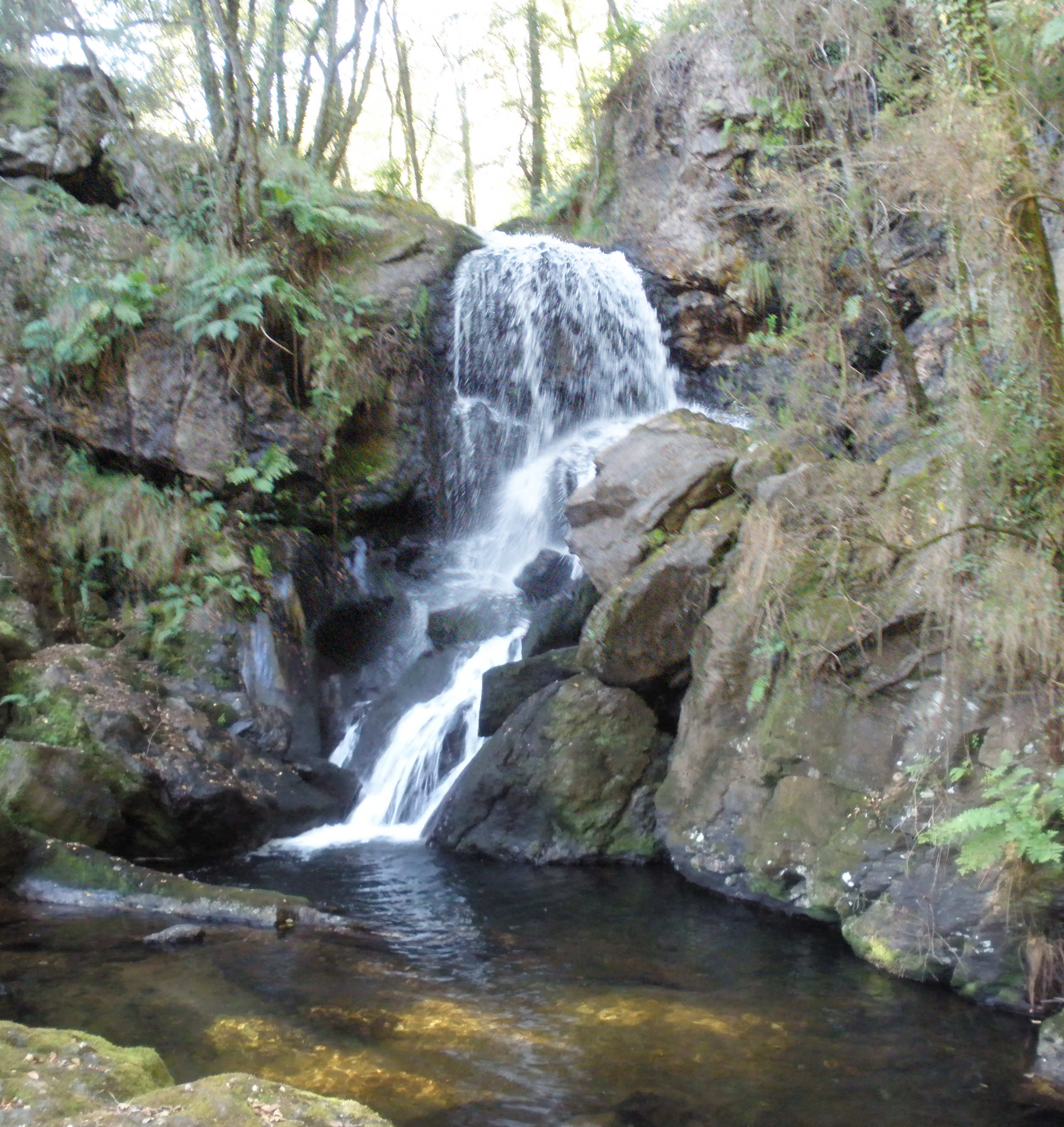 O Rexedoiro waterfall in Val do Dubra, A Coruña, Galicia, SpainGalego: Fervenza O Rexedoiro na parroquia de Vilariño no concello coruñés do Val do Dubra